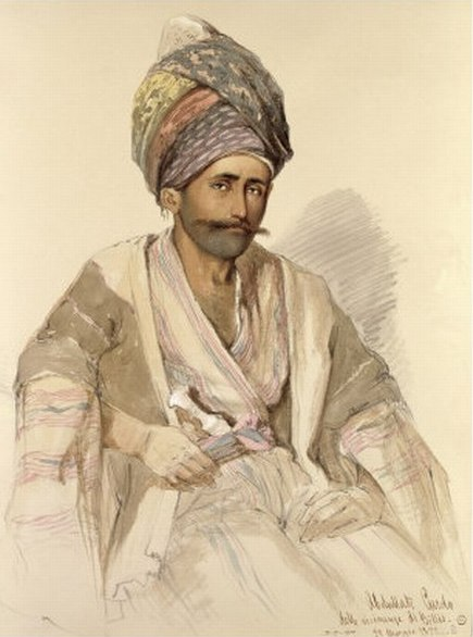 Romania, Balkans, Turkey Authority control : Q3675462 VIAF: 2741854 ISNI: 0000 0000 8082 574X ULAN: 500119781 LCCN: n85197102 GND: 131791583 WorldCat Abdullah - Kurd from Bitlis